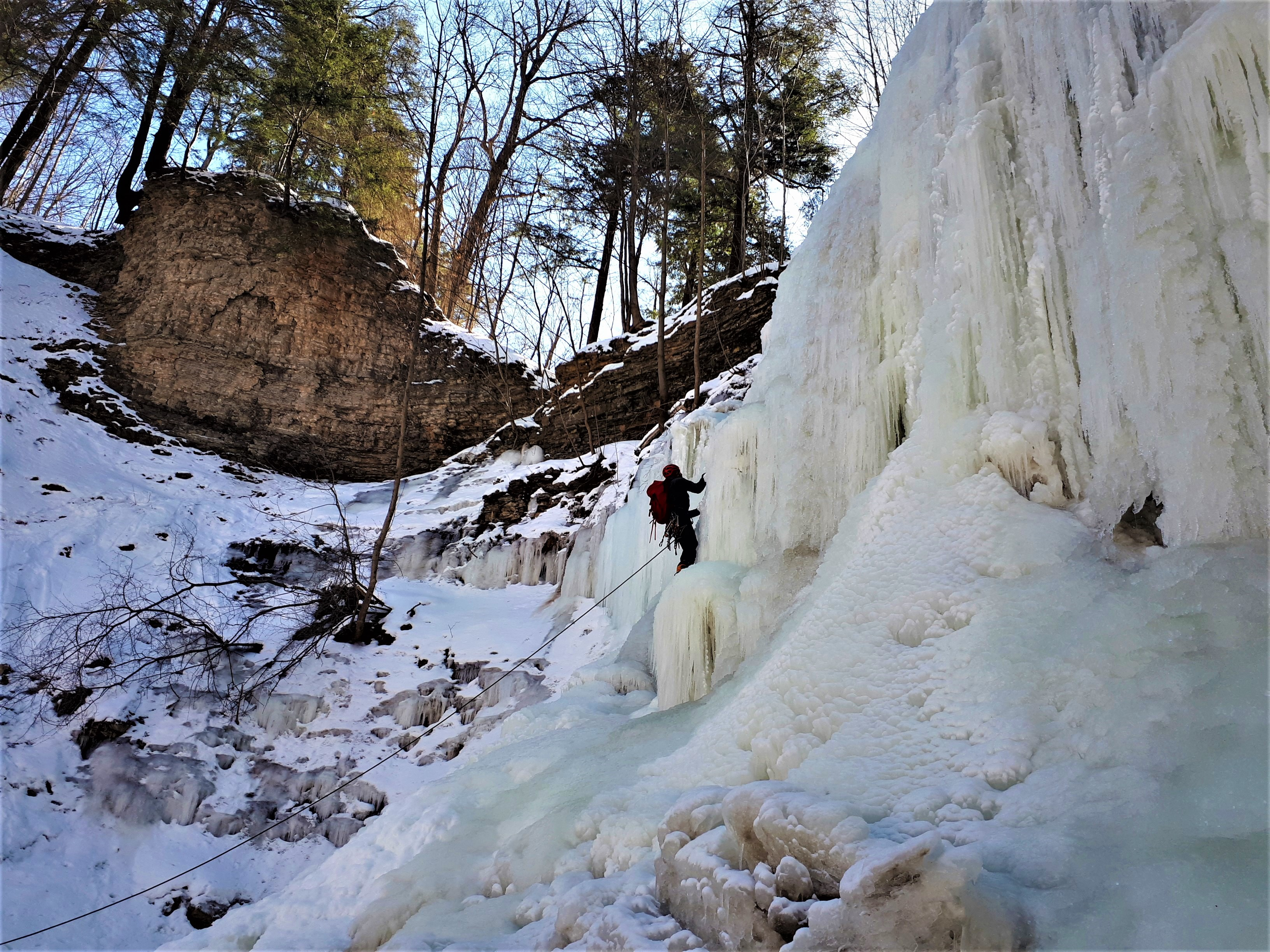 Tiffany Falls is a 21-metre-high (69 ft) ribbon waterfall located in the Tiffany Falls Conservation Area, Ancaster, Hamilton, Ontario, Canada This photo was taken in a protected area in Canada, Wikidata item Q599739673 (Q599739673)